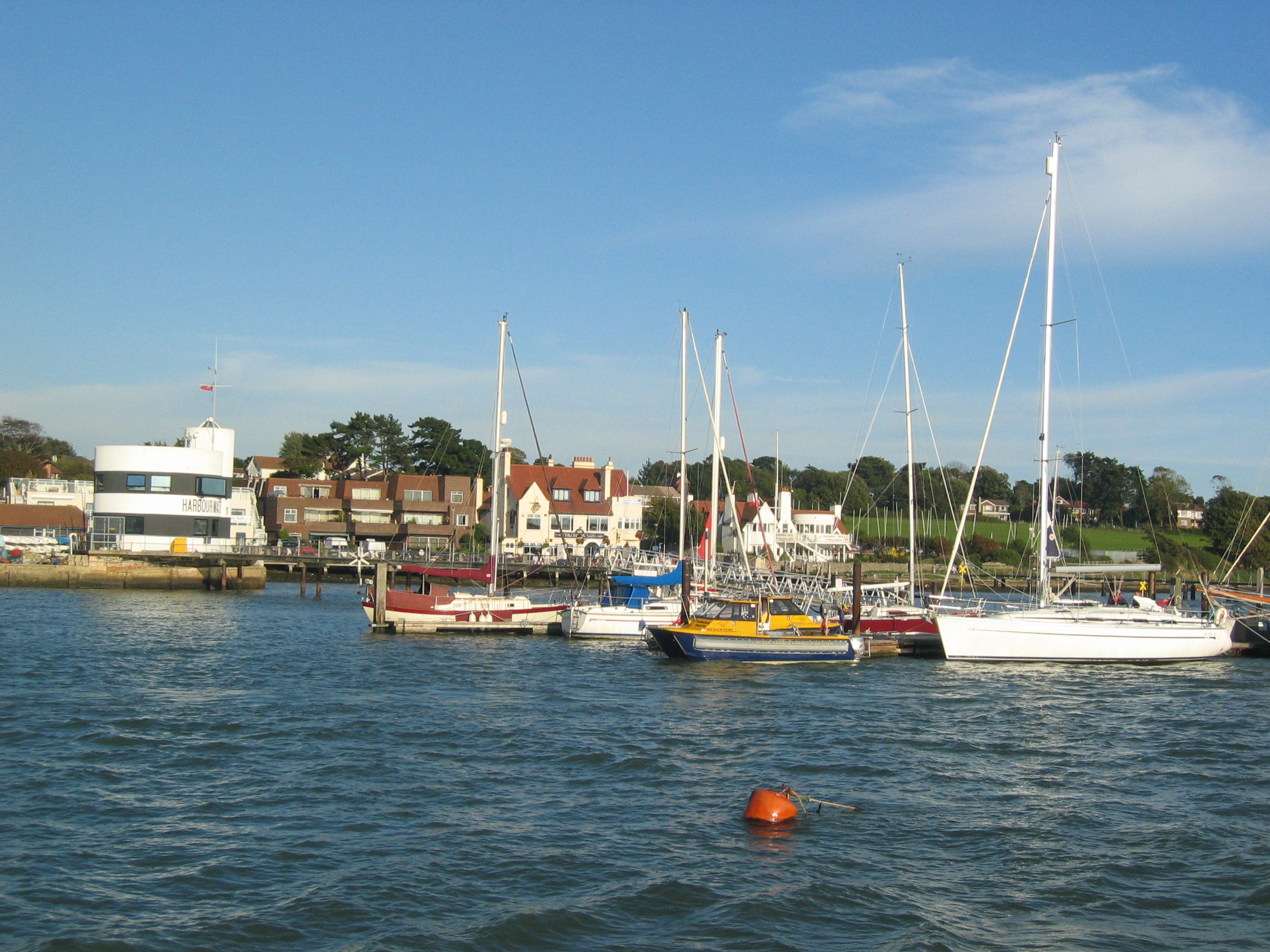 River Hamble near its mouth. A view looking toward Warsash and the Rising Sun Inn.